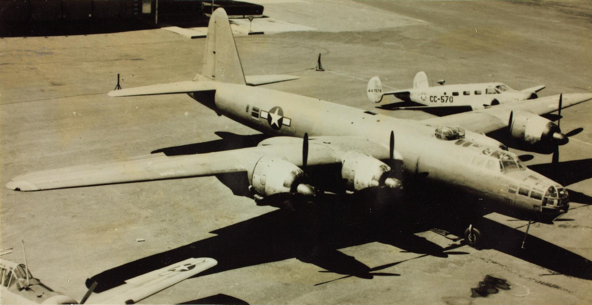 Nakajima G8N "Rita" heavy bomber, taken as a war prize following the Japanese surrender and painted in United States Army Air Forces markings. Small aircraft at top is Beech C-45; wing at bottom belongs to N.American T-6 trainer.